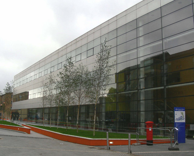 Department of Chemistry, Queen Mary College